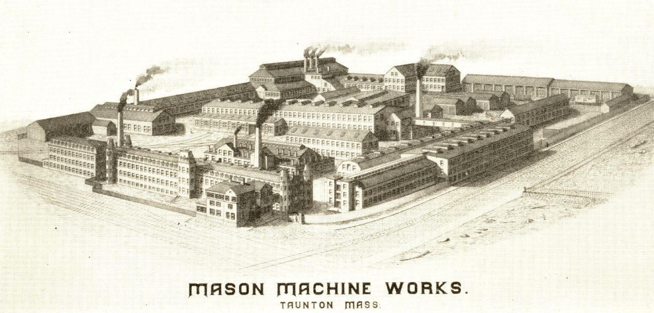 Mason Machine Works, Taunton, Massachusetts